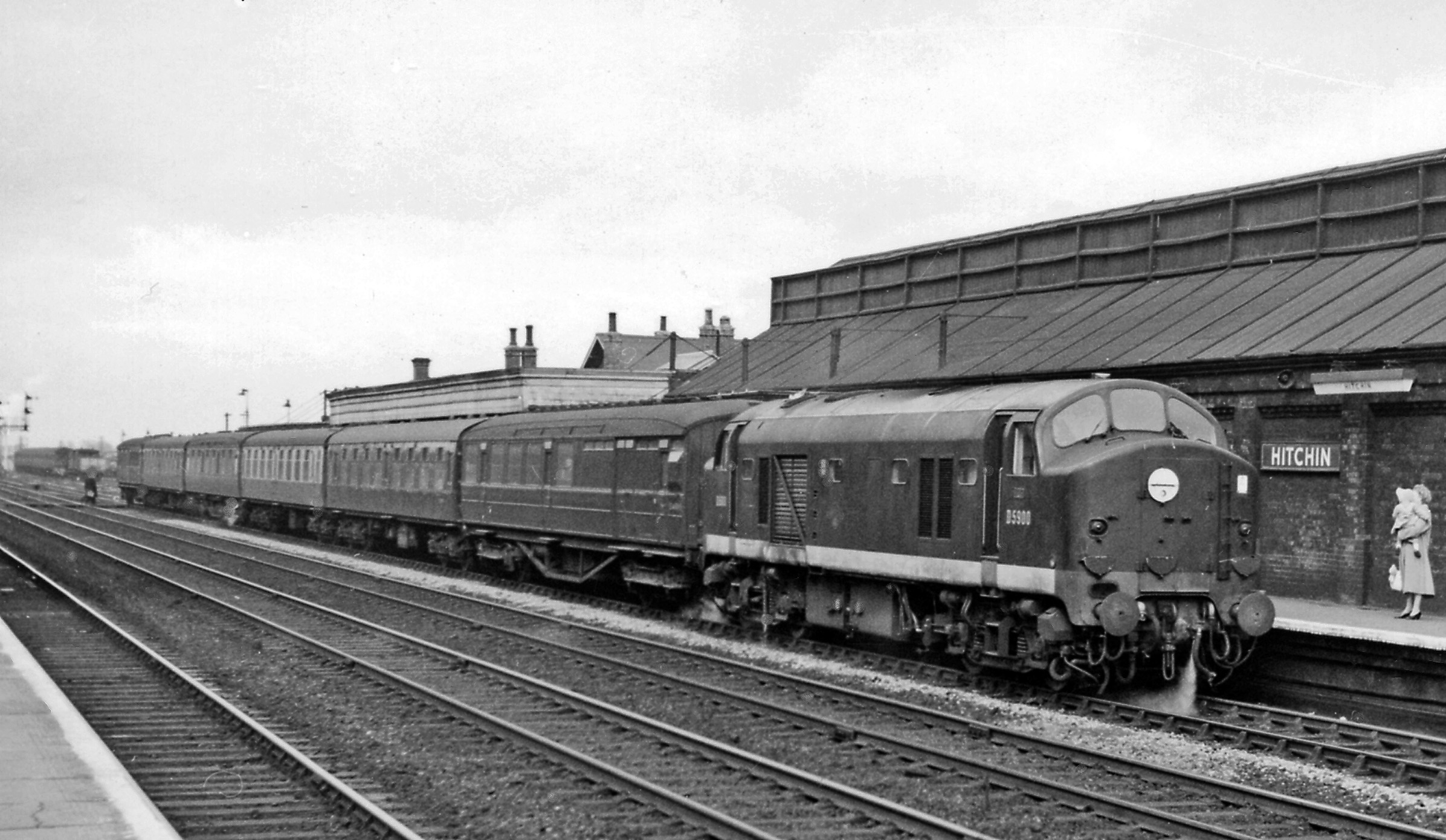 Hitchin Station, with Diesel-hauled Up stopping train. View northward, towards Peterborough etc. on ex-GN ECML, also Cambridge and Bedford. By 1961, main-line Diesels of several classes had become established on the main line from King's Cross: this is No. D5900, the first (built 5/59) of the English-Electric ('Baby Deltic') Type 2 1,160 hp Bo-Bo (later Class 23). They proved rather unreliable and lasted only about 10 years. The train is probably on a Cambridge - King's Cross service.